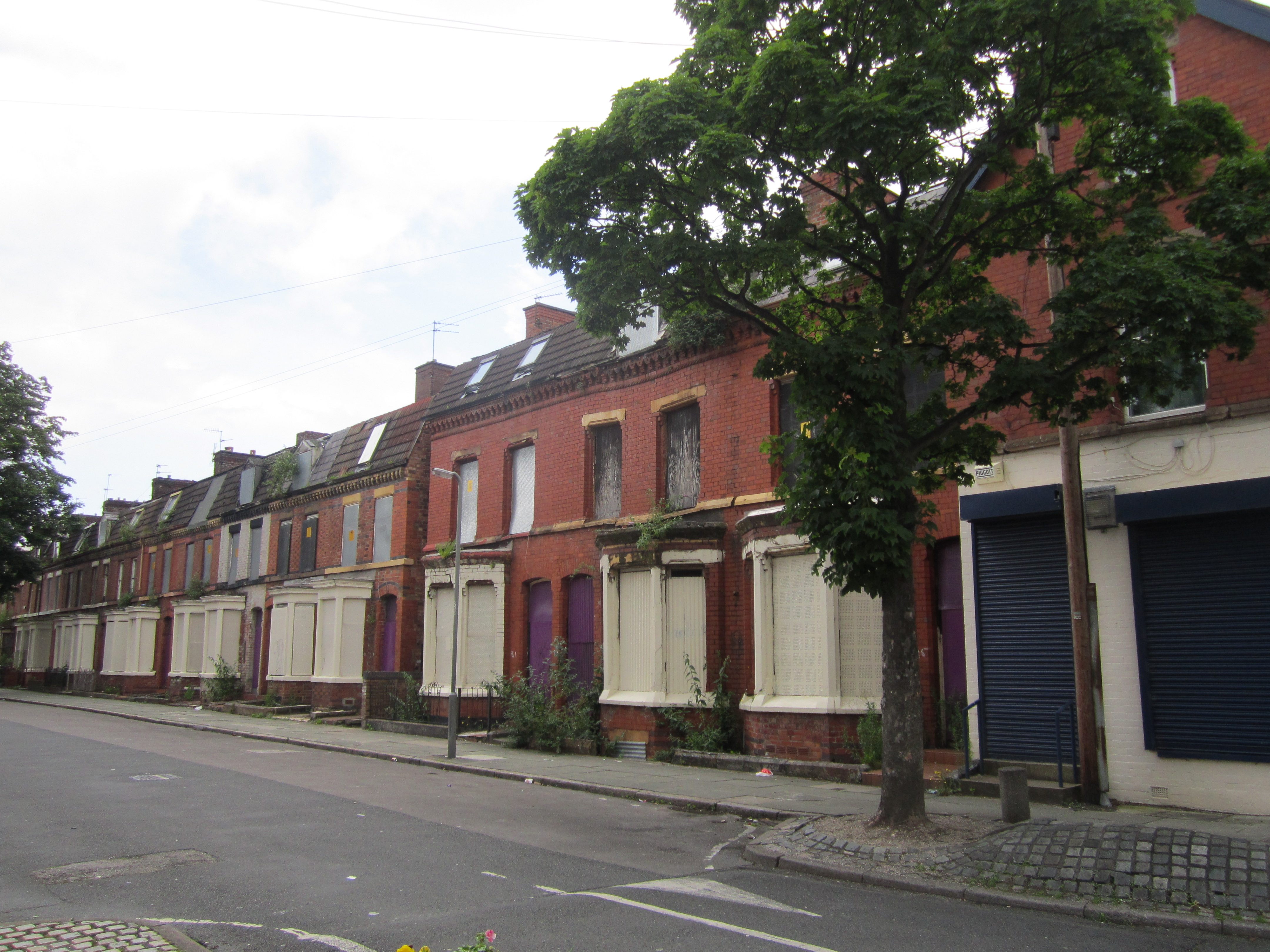 Beaconsfield Street, Toxteth, Liverpool, England.